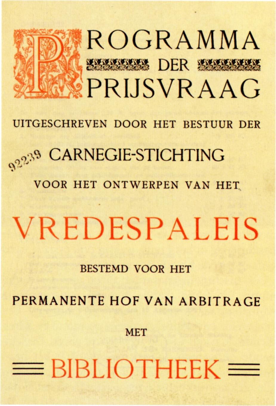 Programma for the 1905 Peace Palace architectural competition, cover.